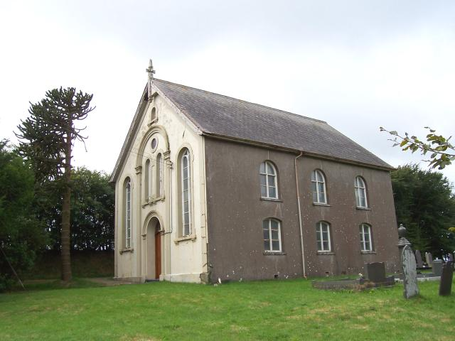 Pantycrugiau Chapel. Pantycrugiau Congregational Chapel at Plwmp.